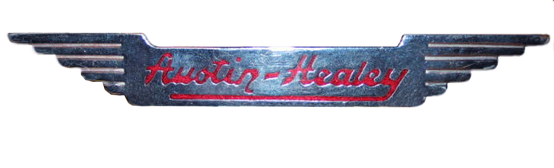 The front badge on all early Austin-Healey cars.